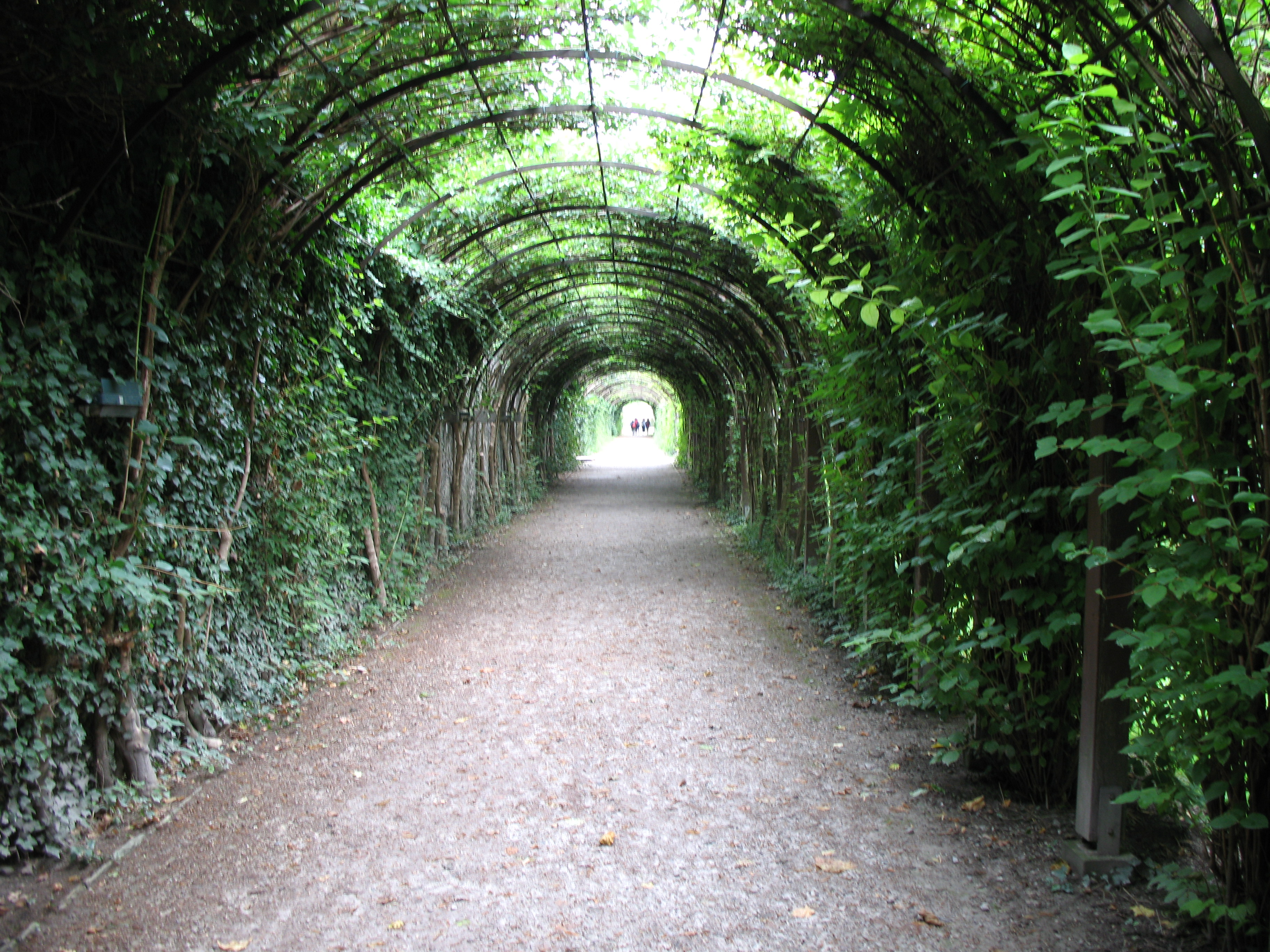 Austria, Salzburg, Mirabell Palace